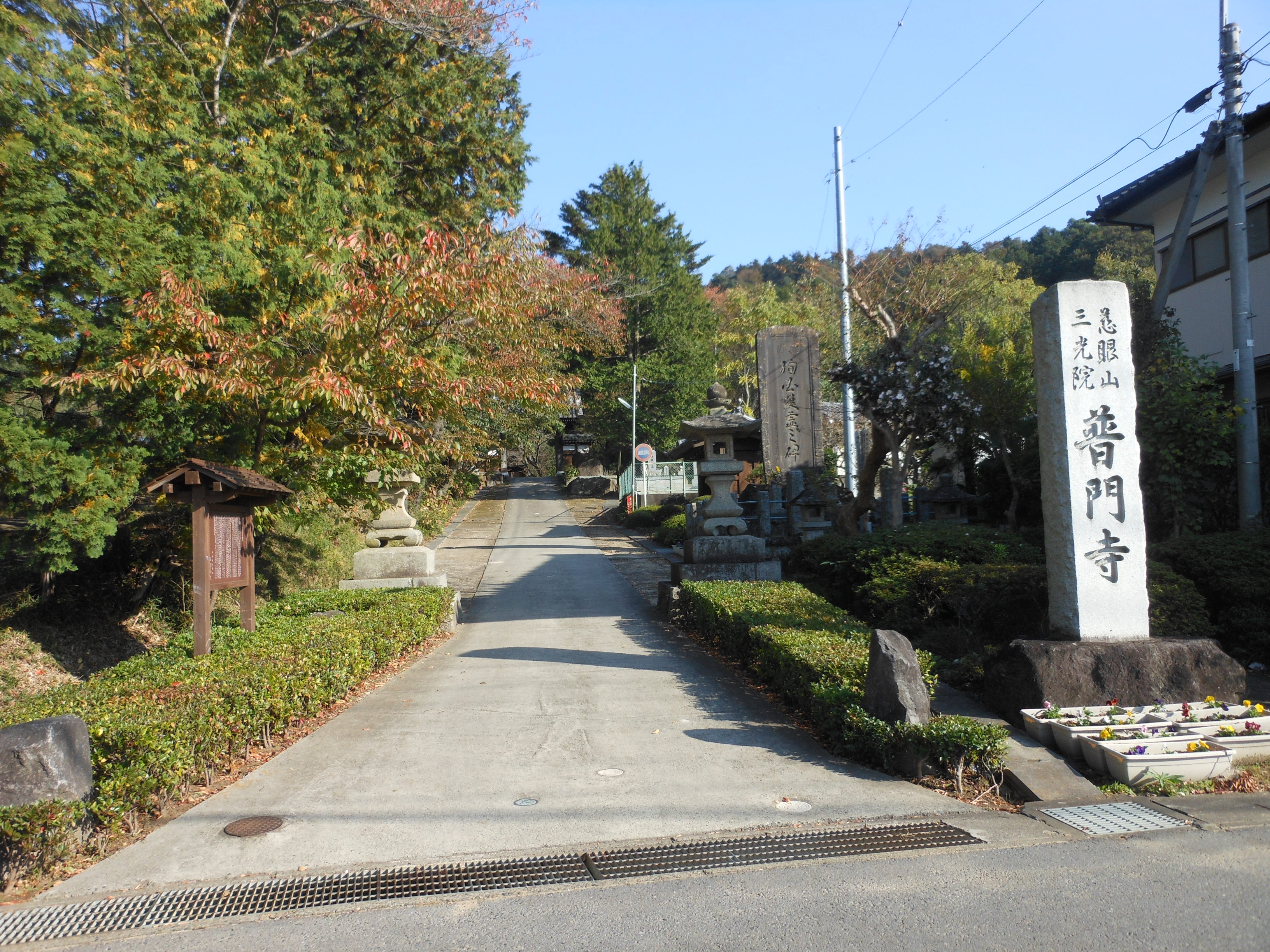 This is an entrance of Fumon-ji temple in Tsukuba, Ibaraki, Japan.